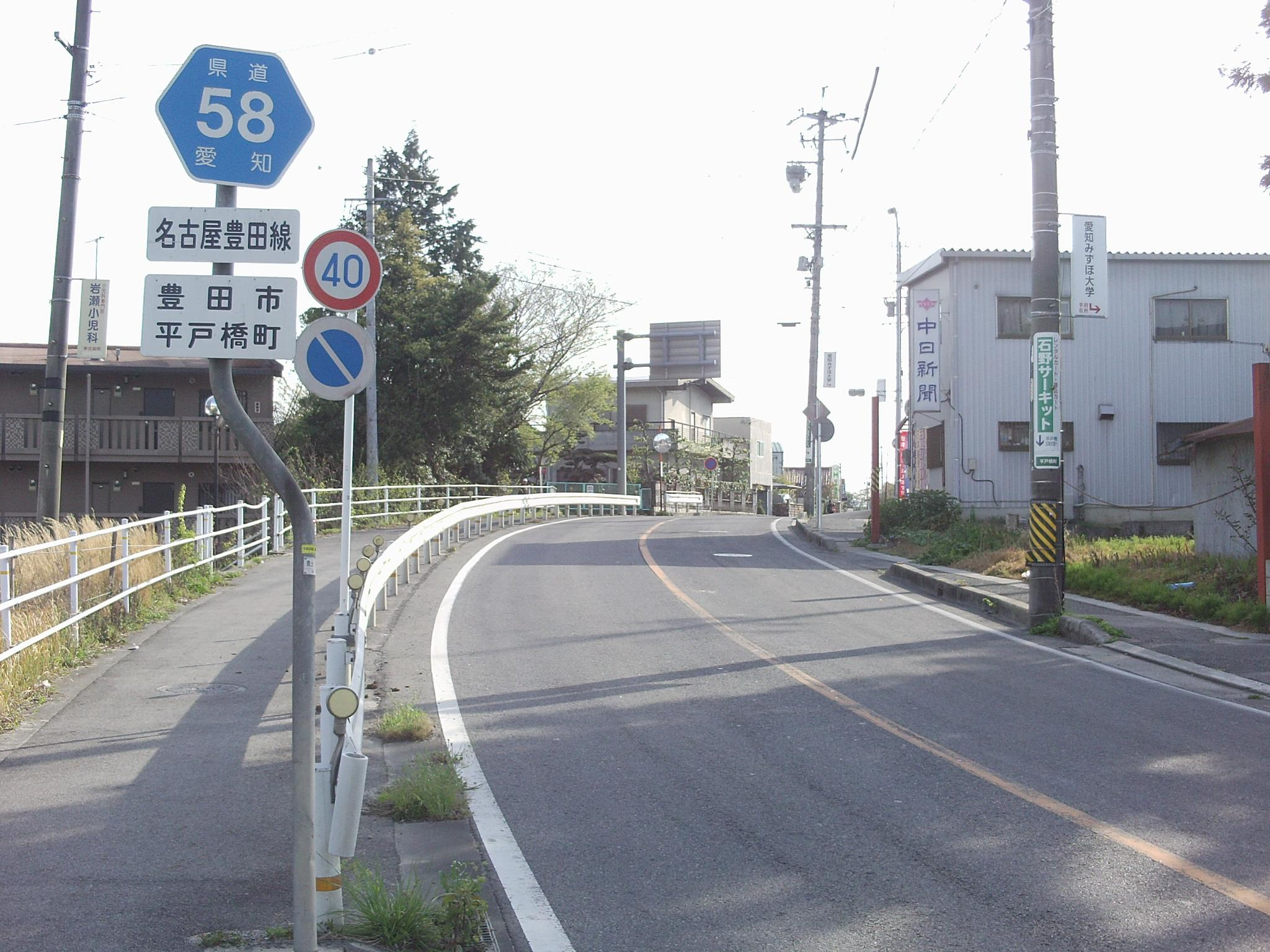 Aichi prefectural road No.58 in Hiratobashicho, Toyota, Aichi.